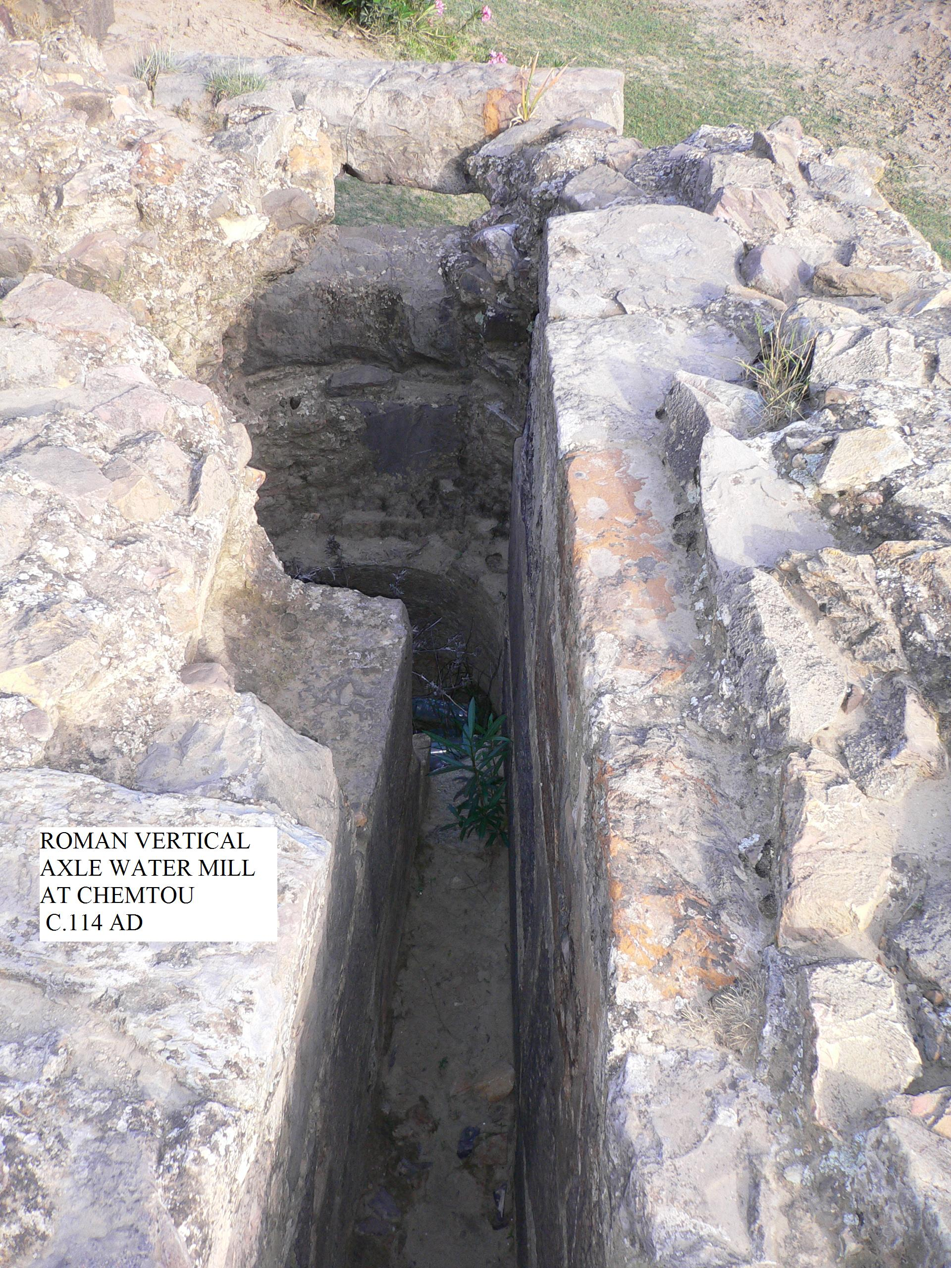 Vertical axle watermill at Chemtou, Tunisia c.114 AD. The date is taken from the inscription CIL VIII, 10117. While the inscription was not attached to this structure, it is reasonably sure that the two are related.